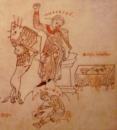 Hildebert and Everwin, two medieval painters. An image from the manuscript De Civitate Dei (created before 1150).